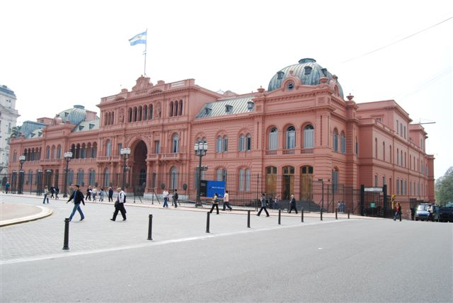 The Casa Rosada from Yrigoyen Street. Note: Argentine presidents do not normally live in the Casa Rosada, they avail themselves of an official residence in Olivos (north of Buenos Aires).